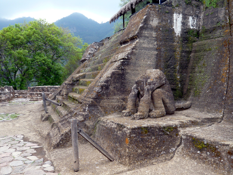 The Jaguar statue outside of the temple of Jaguars at the Aztec site of Malinalco, Mexico State.